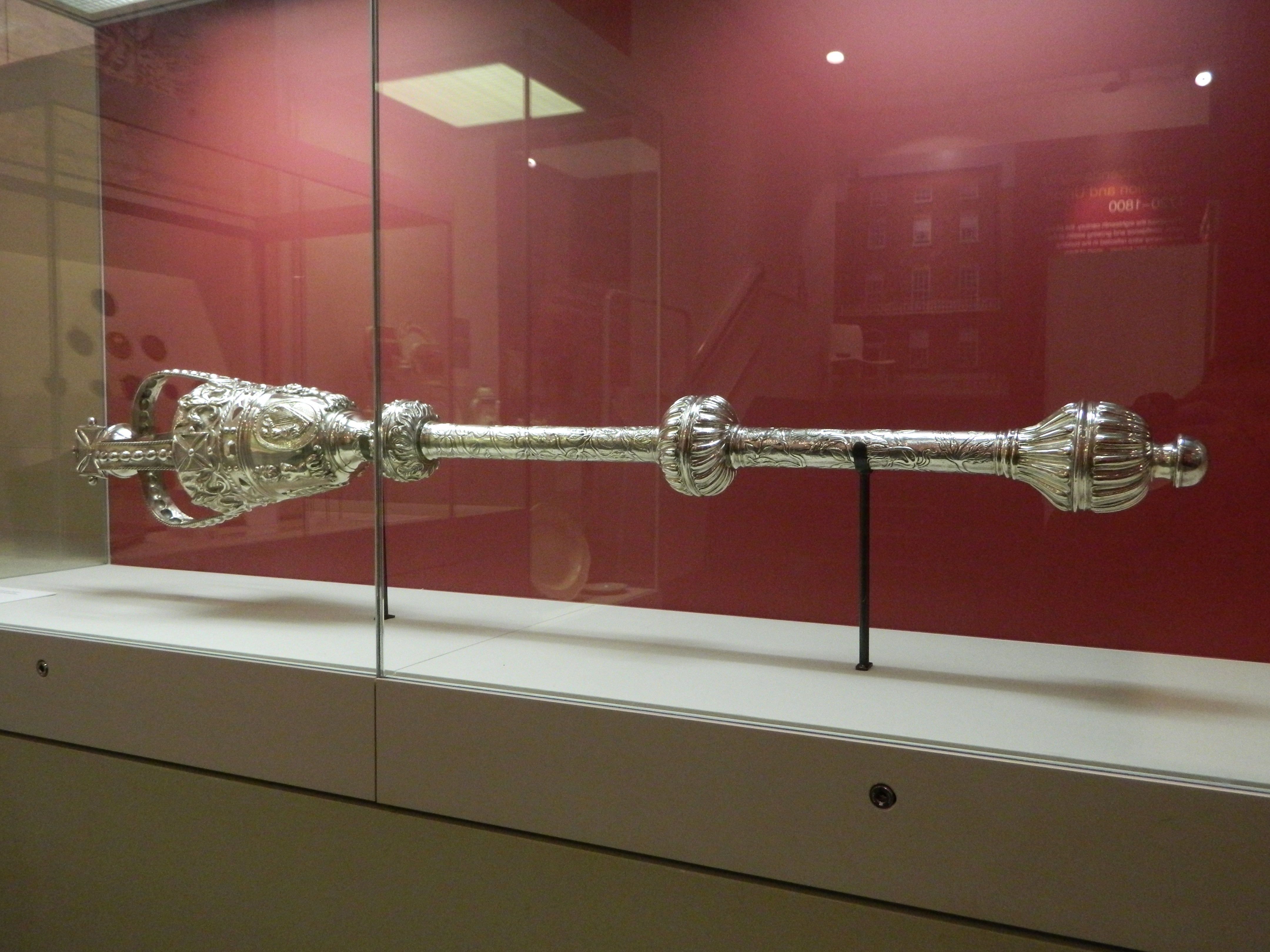 Mace presented in 1724 by Theophilus Clements, MP for Cavan Borough and sovereign (mayor) of Cavan to the town corporation. In the Ulster Museum.